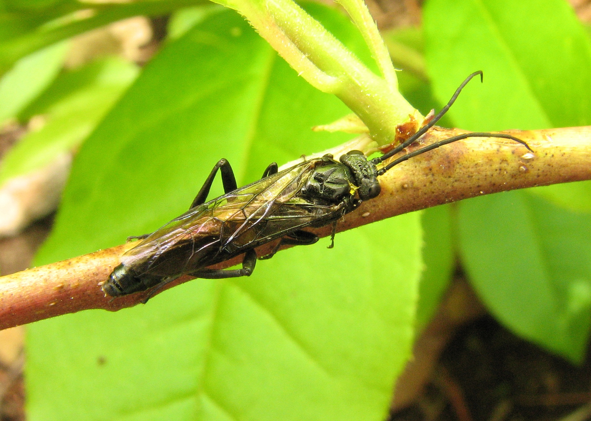 Willow sawfly, Nematus abbotii. Hawks Nest State Park, Fayette County, West Virginia, USA.